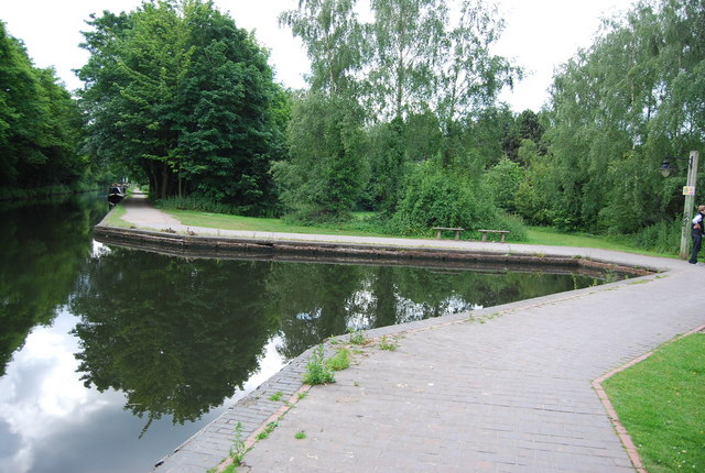 Winding hole on the Worcester and Birmingham Canal Other information © Copyright Nigel Chadwick and licensed for reuse under this Creative Commons Licence